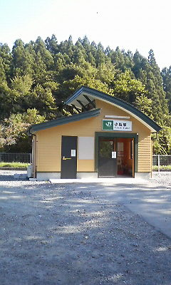 Konashi Station on Ofunato Line